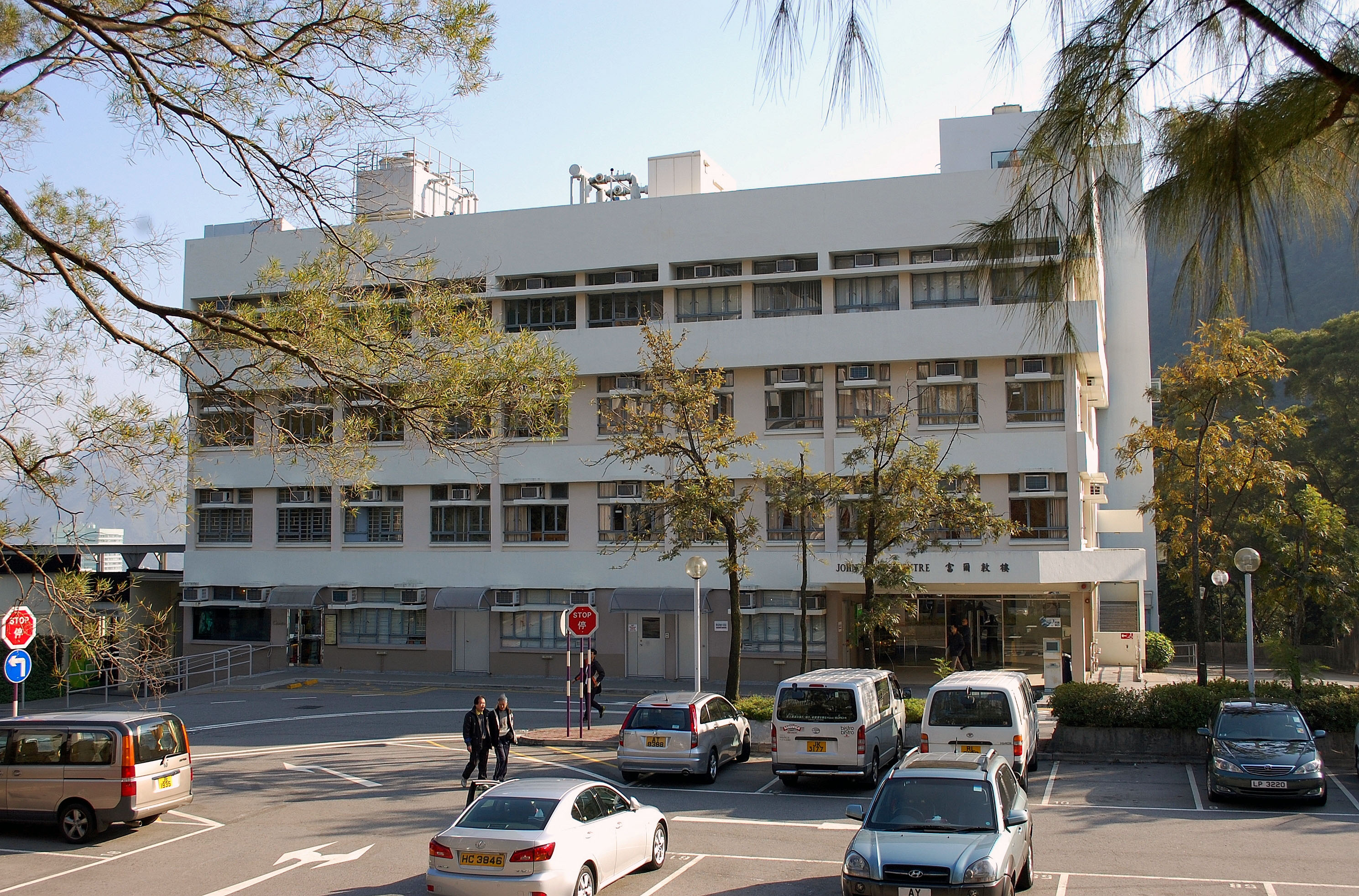 John Fulton Centre building and car park, Chinese University of Hong Kong. 中文（香港）: 香港中文大學富爾敦樓